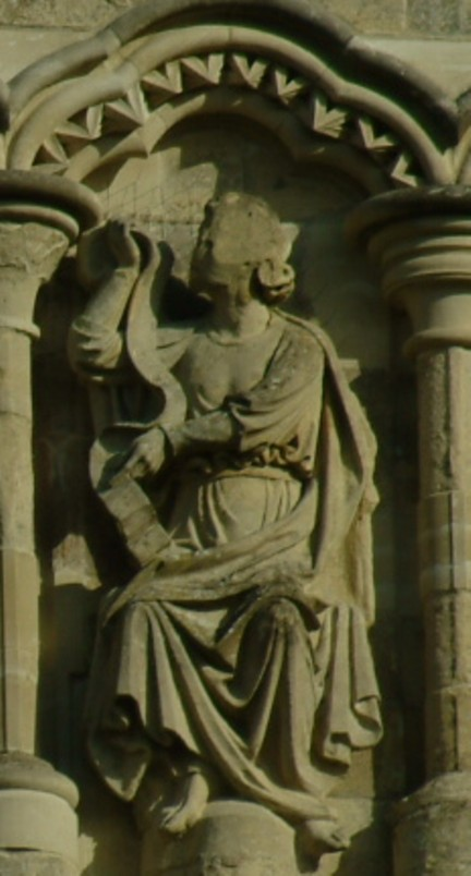 Statue of an angel in niche No. 31 on the Great West Front of Salisbury Cathedral.